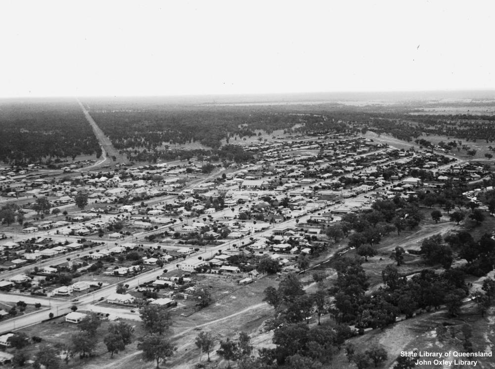 Aerial view of Charleville, 1947. Aerial view of Charleville, Queensland, taken in 1947, with the Warrego River visible in the background.